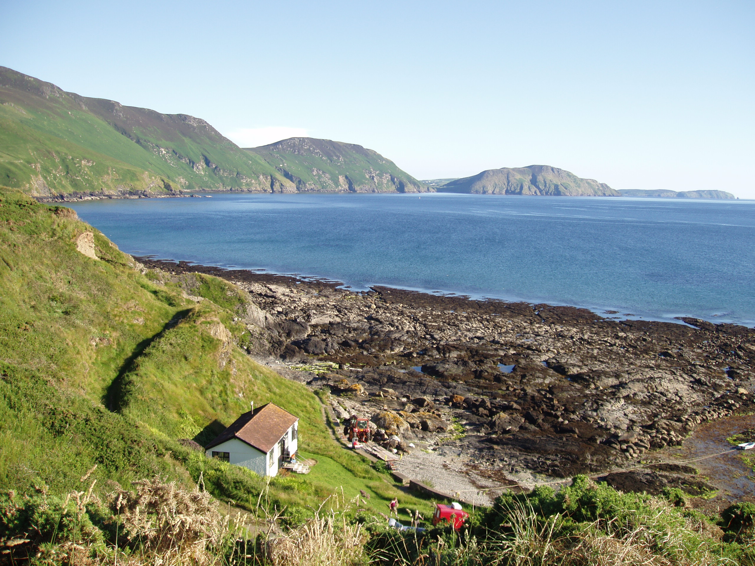 View across Niarbyl Bay at the southwest coastline of Isle of Man. Milner's Tower can be seen on Bradda Head. On the far right of the picture is the Calf of Man - an island off the southwest tip.